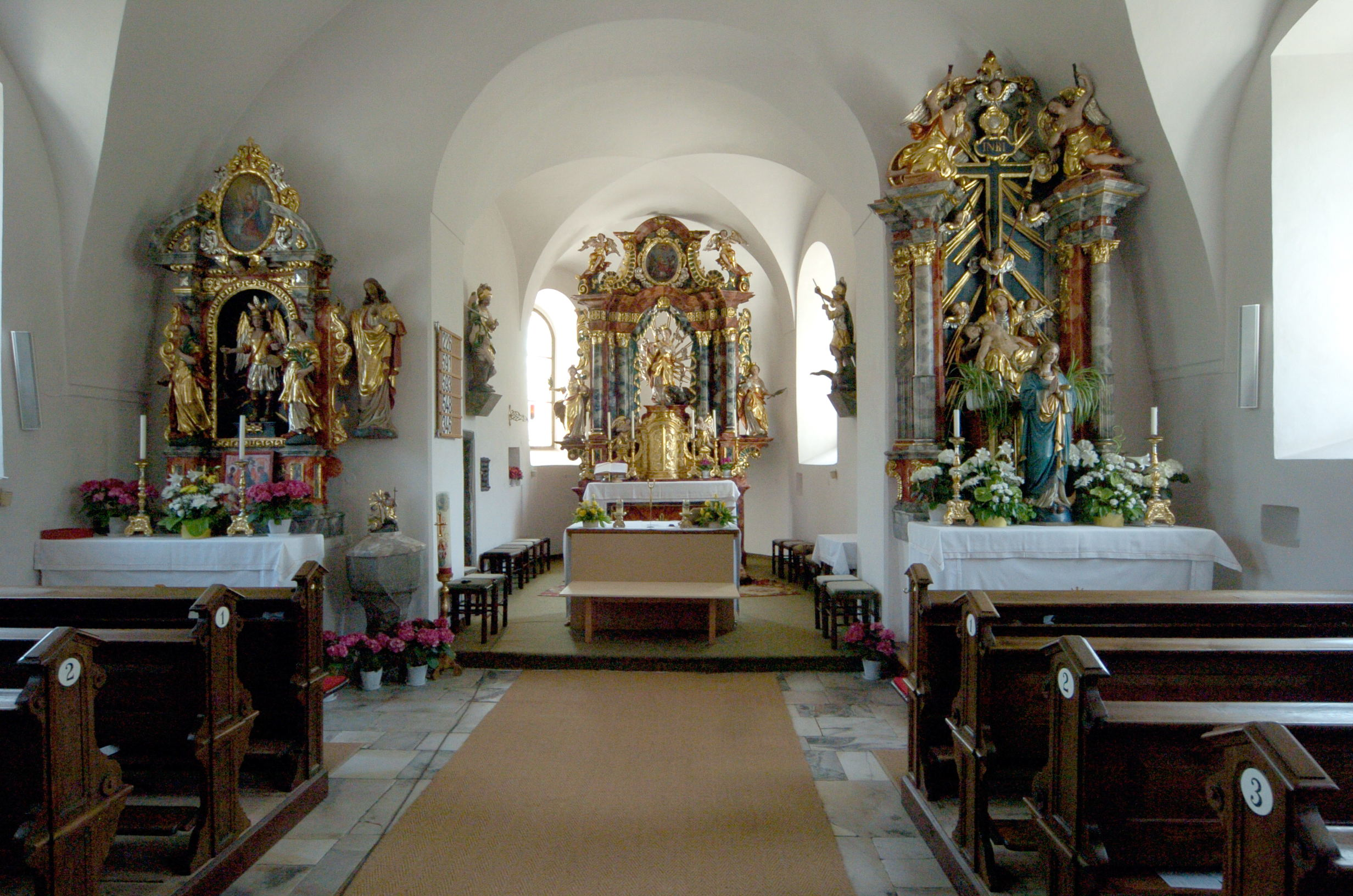 Interior of the parish church Saint Margaret and rectory in Sankt Margareten im Rosental, municipality Sankt Margareten im Rosental, district Klagenfurt Land, Carinthia, Austria, EU